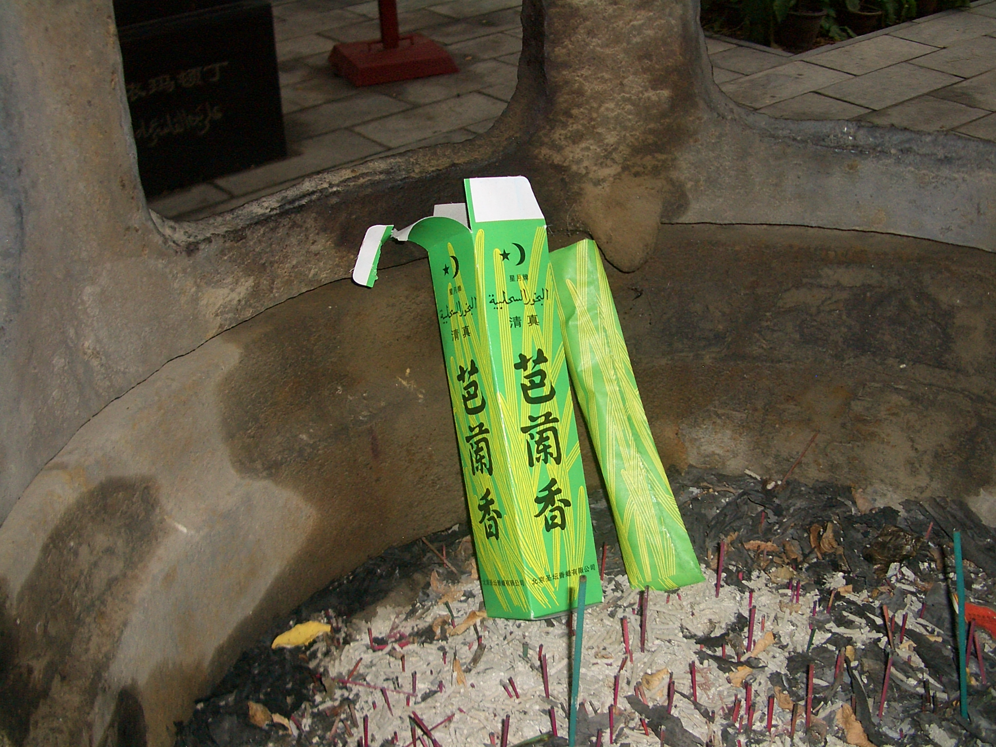 Niujie Mosque, Beijing